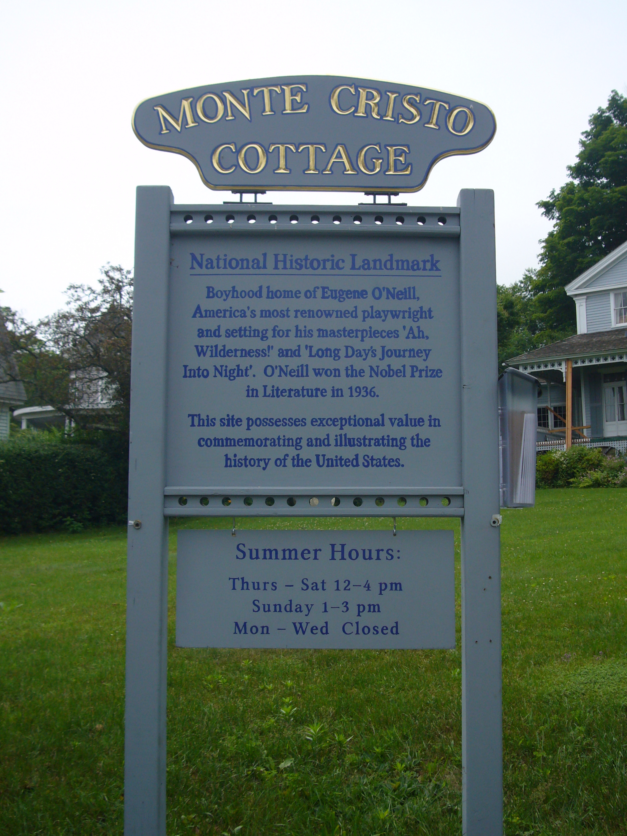 Historic marker in front of Monte Cristo Cottage, New London, CT, USA.